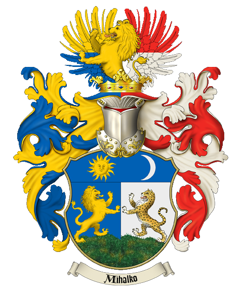 Ron Mihalko